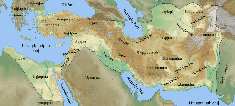 Map of Achaemenid Empire in Russian, 500 BC.